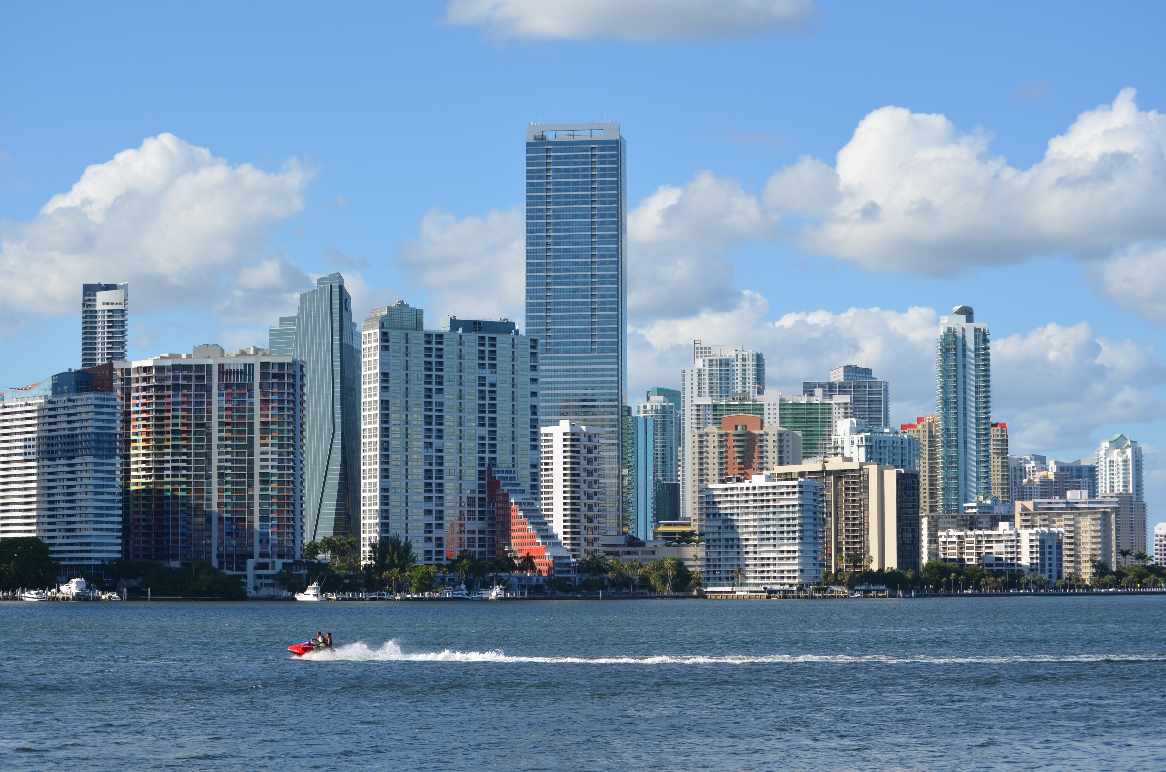 Skyline of Brickell / Miami from the Rickenbacker Causeway